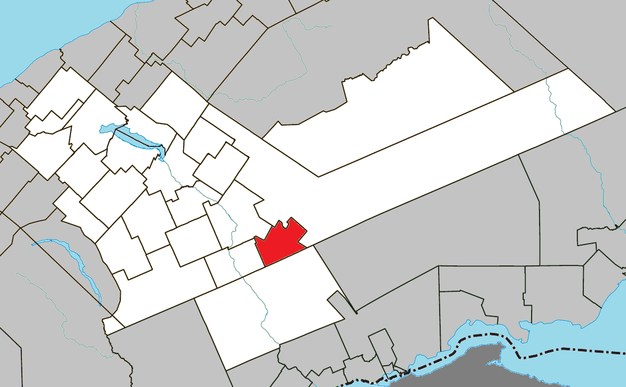 Location of Sainte-Marguerite-Marie, Quebec within La Matapédia Regional County Municipality.